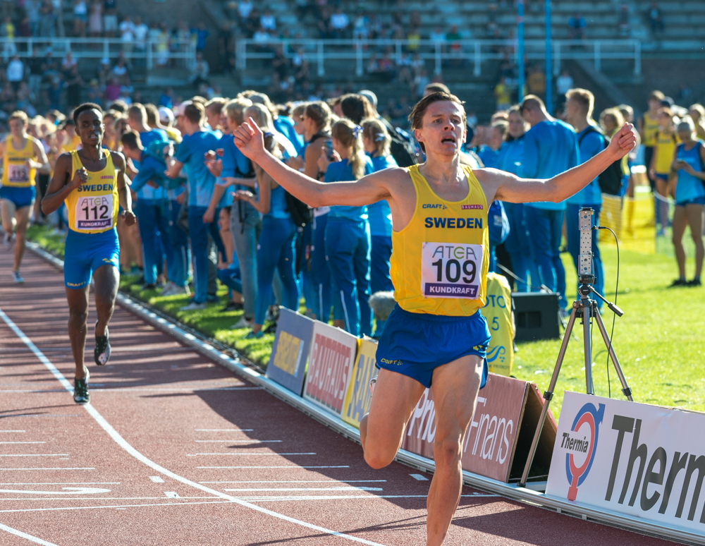 Andreas Almgren during the Finland-Sweden athletics international 2019 at the Stockholm Stadium in August 2019.